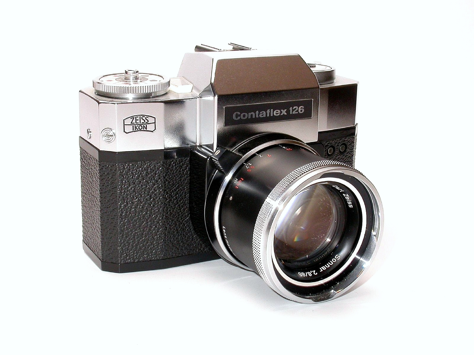 Another slr for the 126 cartridge format.